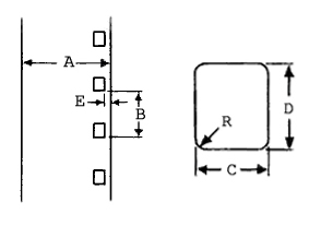 Image of a section of a Super 8 movie film